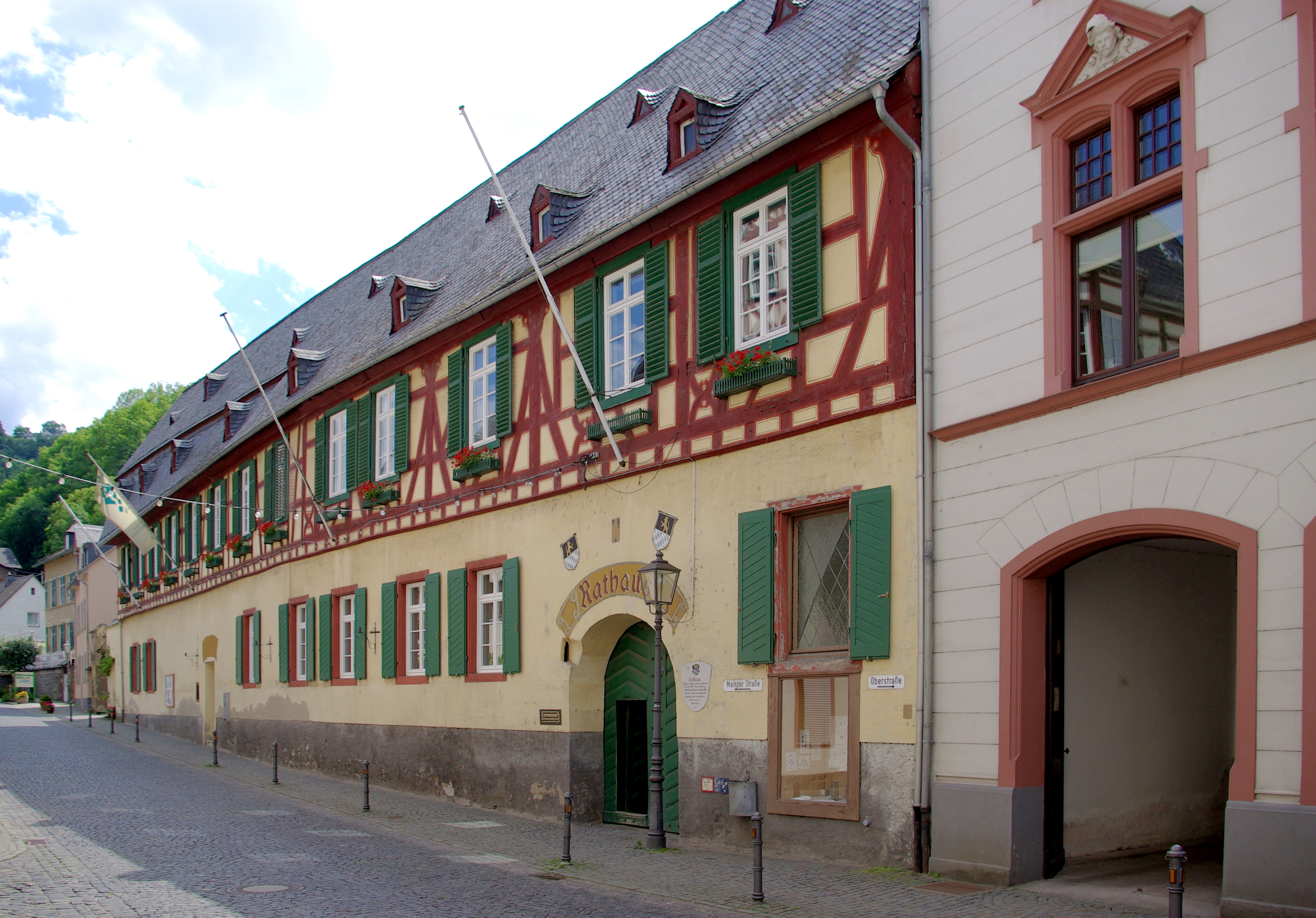 Germany, Bacharach at the rhine, Town hall